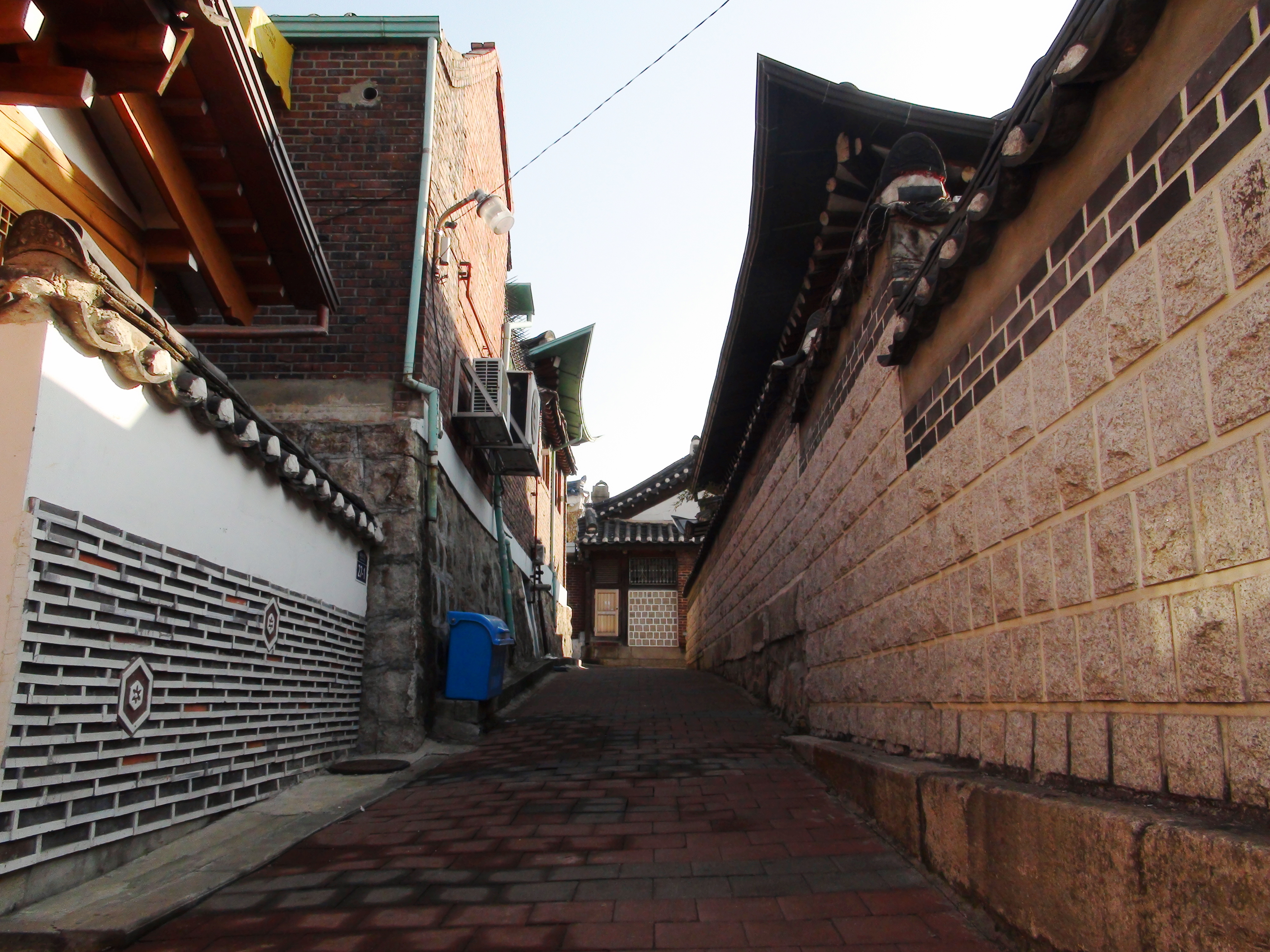 Area east of Bukchon Hanok Village B